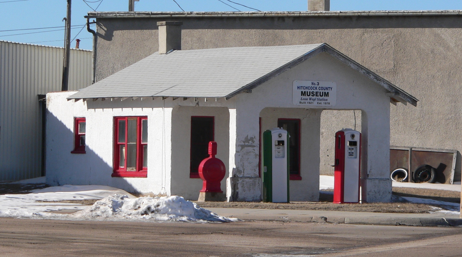 Weyl Service Station in Trenton, Nebraska; seen from the northeast. The station was built in 1921, and is listed in the National Register of Historic Places. It is now part of the Hitchcock County Museum.